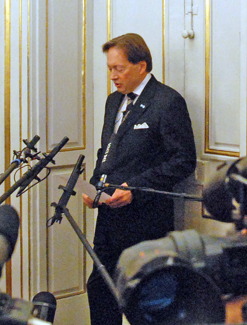 Announcement of the Laureate of the Nobel Prize in Literature 2008 at the Swedish Academy in Stockholm by Horace Engdahl